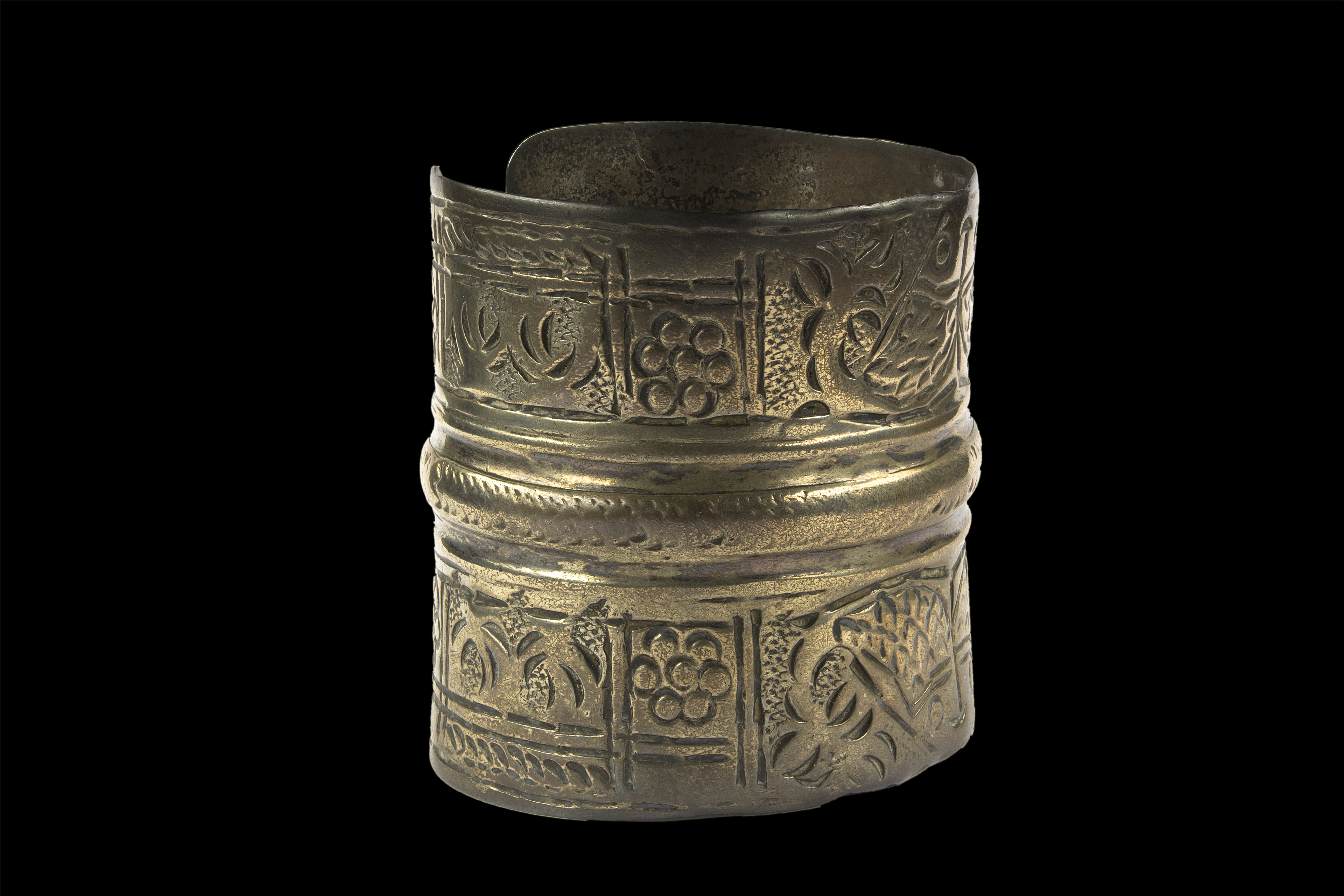 a chiseled silver bracelet Population : Libyan Desert Egypt. Collector and collection: Combes, Séverine Date of collection: 20th century date QS:P,+1950-00-00T00:00:00Z/7 Materials: silver Size : 7,5 x 6,5 x 7,5 cm